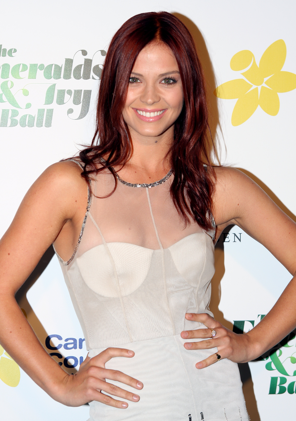 RONAN KEATING'S EMERALDS AND IVY BALL On Friday November 16, Ronan Keating and Cancer Council Australia will stage the Inaugural Emeralds and Ivy in Sydney at The Ivy Ballroom in Sydney. The glamorous black tie gala event will be hosted by Ronan Keating and The Morning Show's Kylie Gillies, and features a guest list that boasts a host of actors and entertainers, as well as fans and supporters of Cancer Council Australia. Guests will enjoy a spectacular three-course dinner in the stunning and intimate Ivy Ballroom and will be entertained by X Factor finalists, Vogue Williams and Ronan Keating. Funds raised through ticket sales and auction items on the night will go to the Cancer Council's Ronan Keating Fellowship.